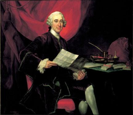 Portrait of Robert Darcy, 4th Earl of Holderness